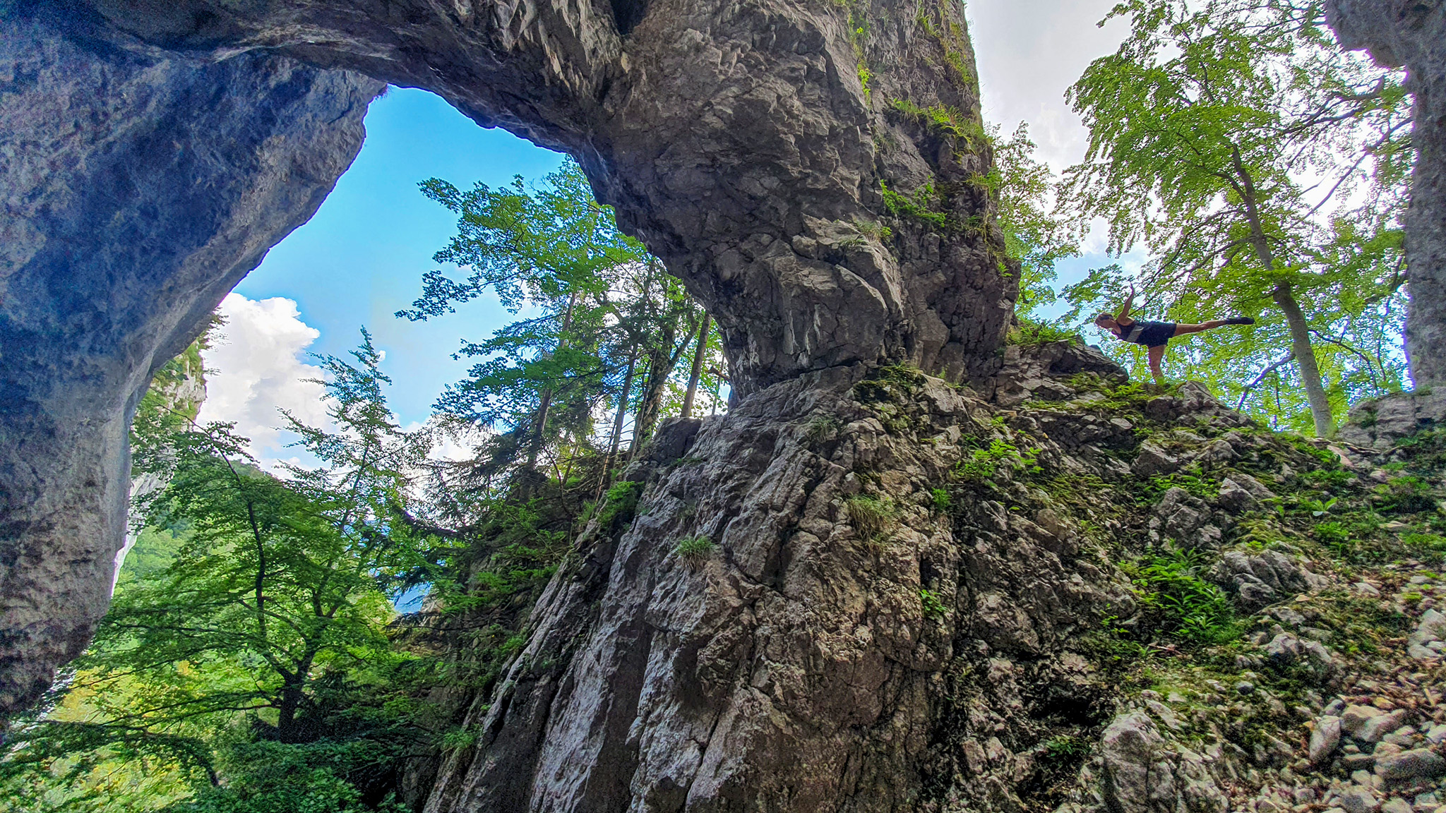 The "Felsentor" (rock gate) at the "Dürres Eck" mountain in the Kalkalpen national park region of Upper Austria.